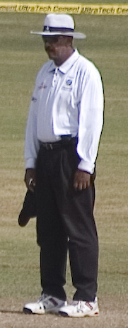 Cropped image of Billy Doctrove, cricket umpire.